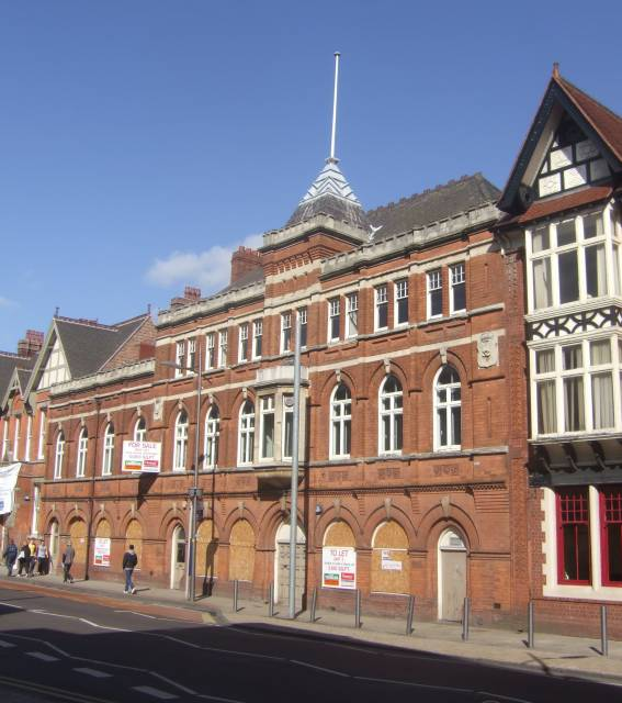 Drill Hall - Stafford Street Built around 1890 for the South Staffordshire Yeomanry in the 'Victorian Gothic' style. The South Staffordshire Regiment has a long association with the city. Their emblem is carved into panels at first floor level.